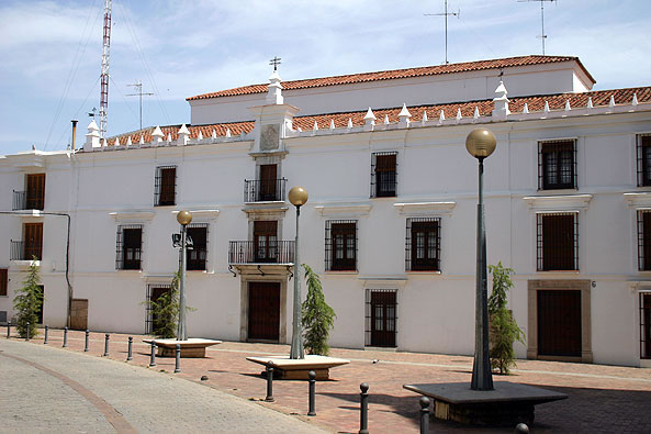 House-Palace of Counts of the Oliva de Plasencia in Almendralejo